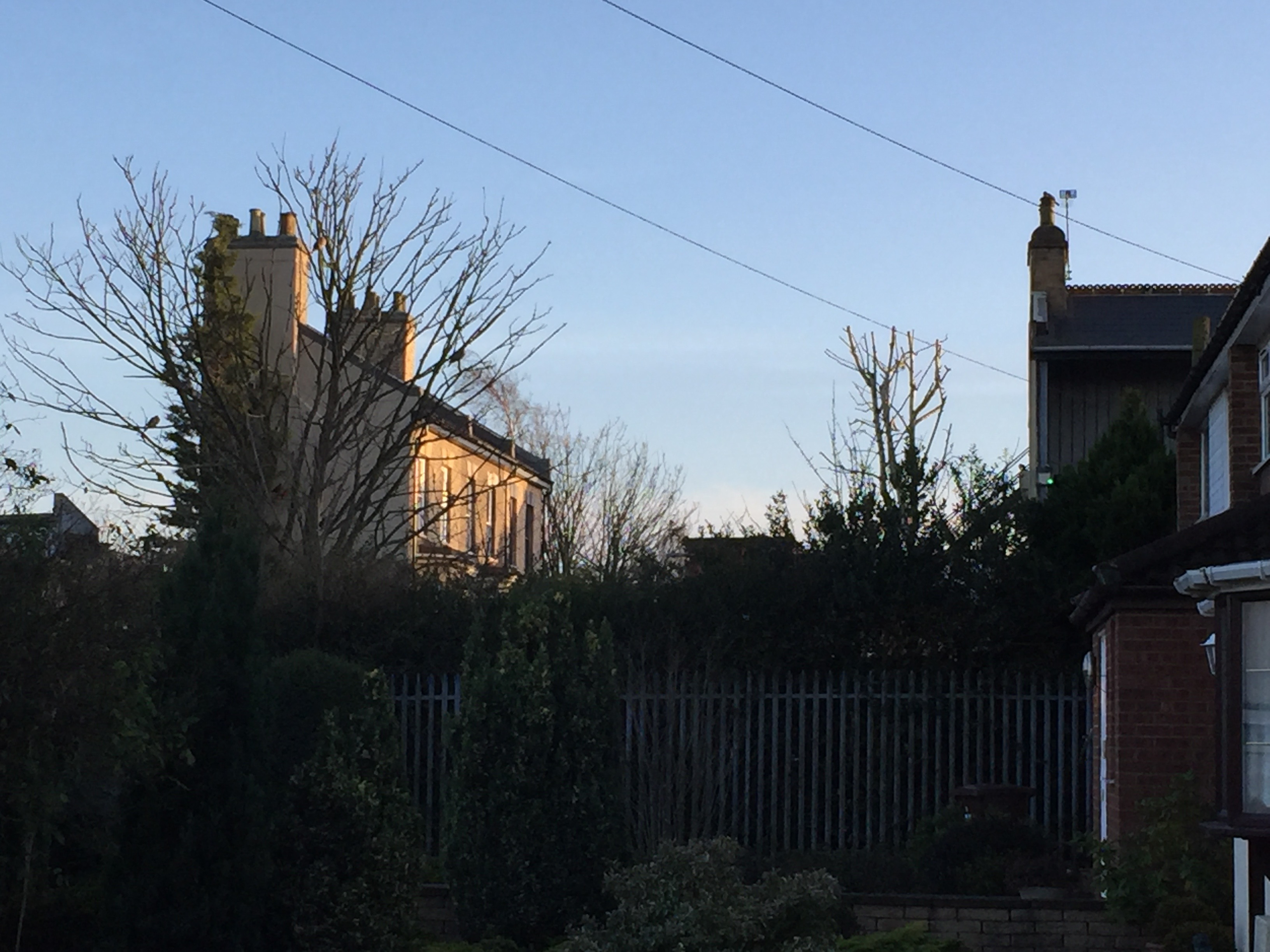 Back of Albert Square, BBC Elstree Centre, Borehamwood, Hertfordshire